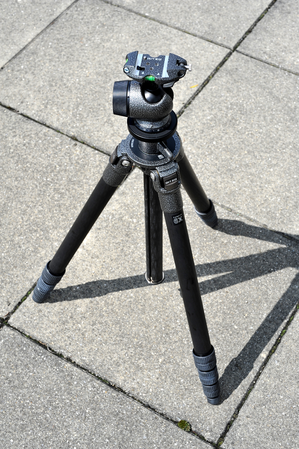 Carbon-tripod Gitzo Mountaineer GT3541L with off centre head, quick release system and reversable center column. Packed length: 66.5 cm, extracted length without center column: 159 cm, maximum extracted length: 192 cm, weight: 2.6 kg.